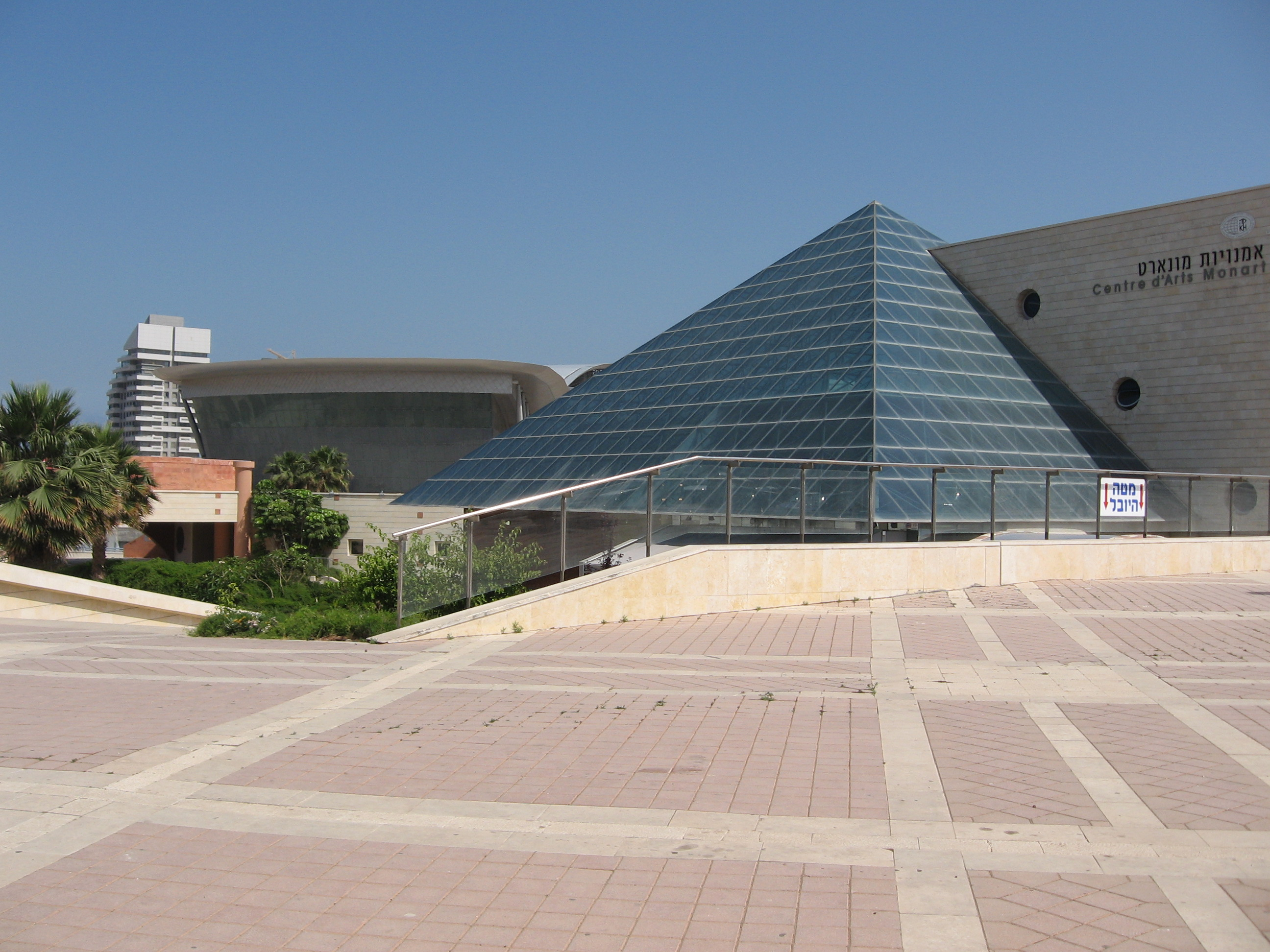 MonArt Arts Centre, Ashdod, Israel.